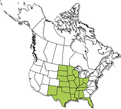 North American Distribution map of the Smooth softshell turtle